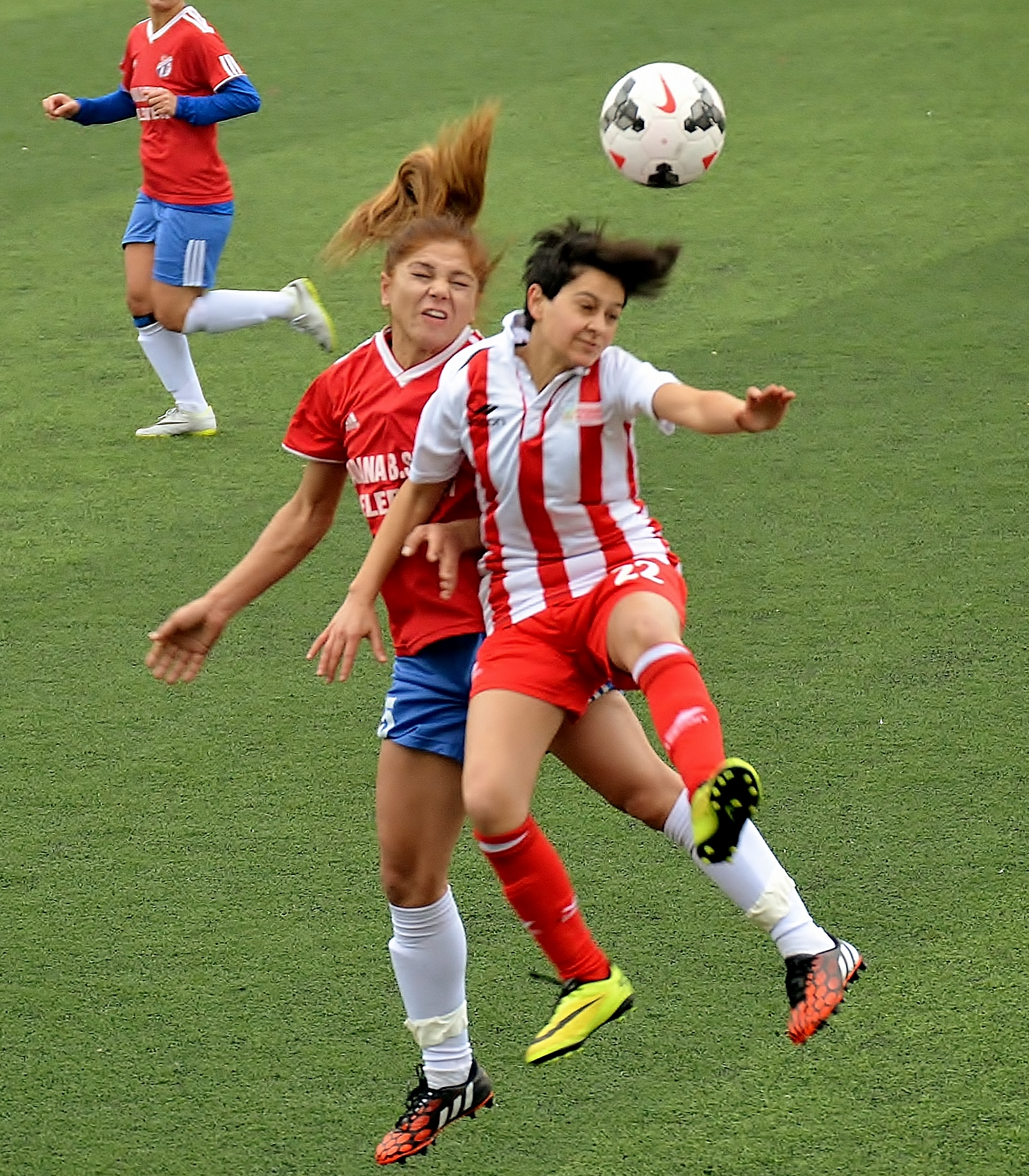 Hilal Çetinkaya (white-red) and Songül Ece playing in the 2014-15 season match Ataşehir Belediyespor vs Adana İdmanyurduspor